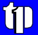 TP1 Logo 1985-1992